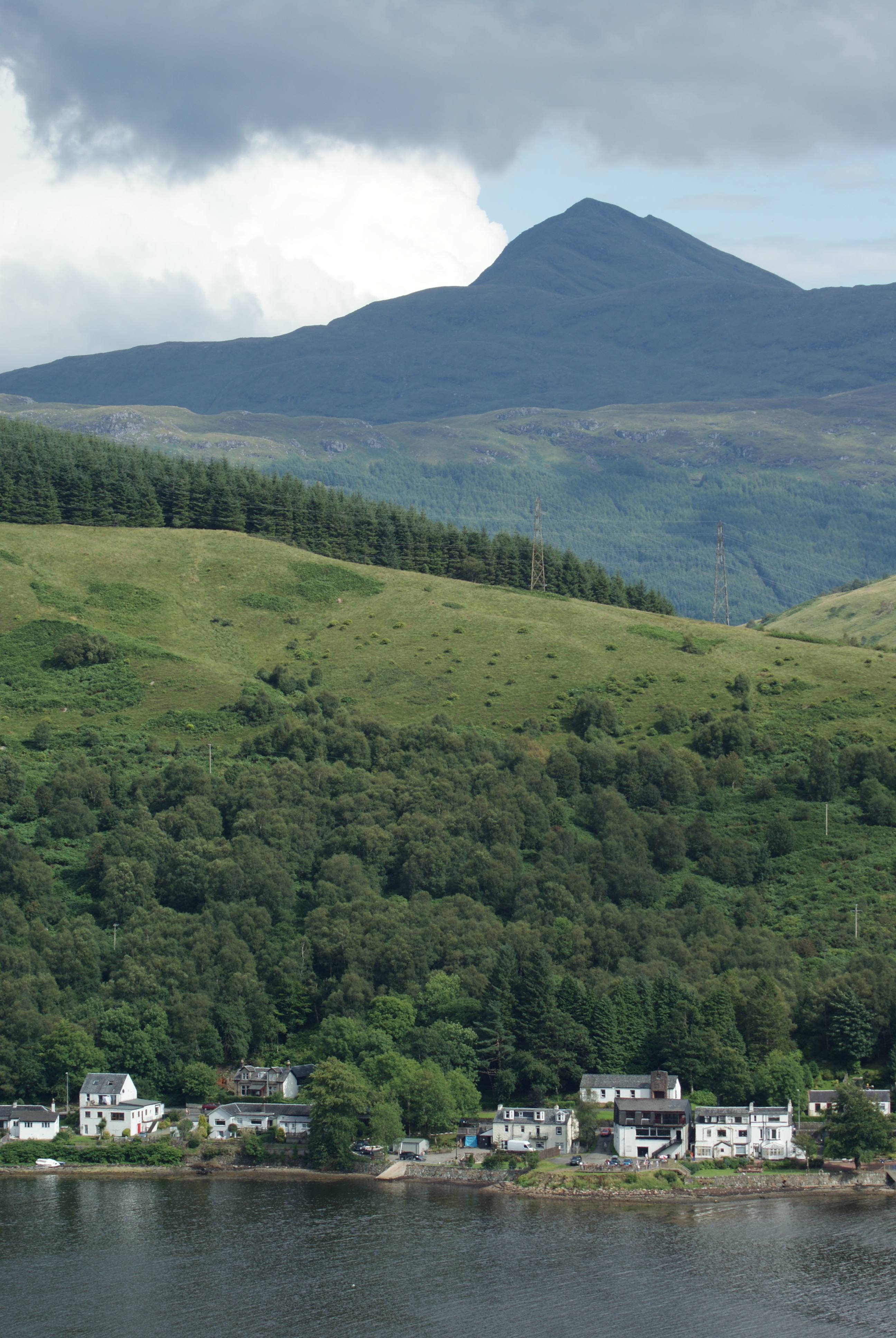 Arrochar village, with Ben Lomond behind, taken from the path to Ben Arthur